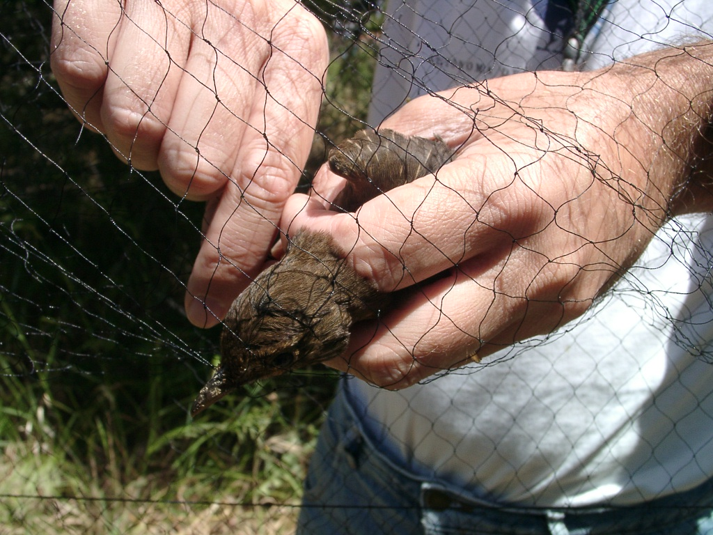 Bird ringing (bird banding) sequence, picture 3: Extracting a bird from a mist net (Eurasian Blackbird, Turdus merula). Cruzinha, Portimão, Portugal.